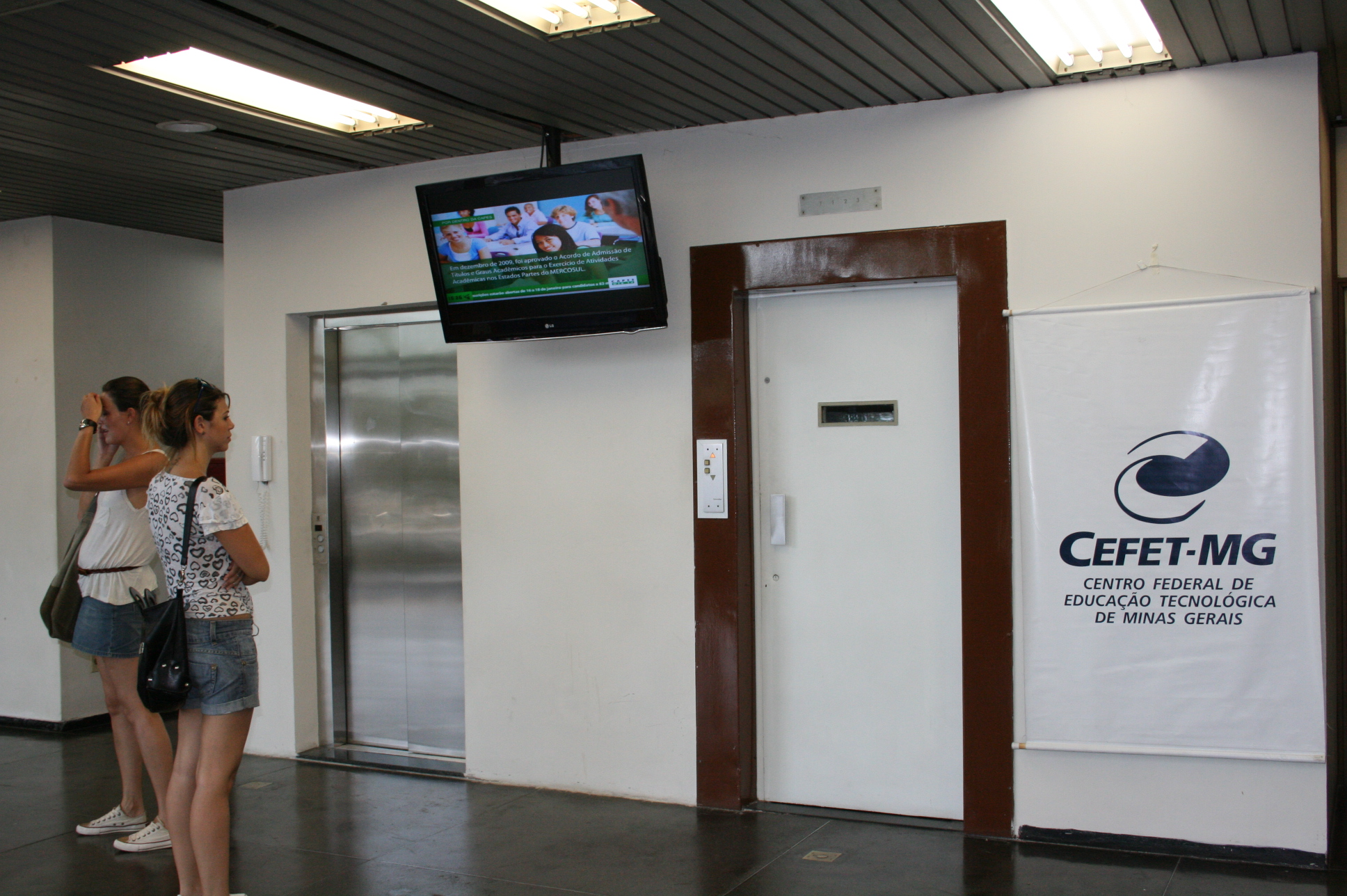 CAPES's television (television of Coordenação de Aperfeiçoamento de Pessoal de Nível Superior) broadcasting content 24 hours a day at campus I of Centro Federal de Educação Tecnológica de Minas Gerais, in Belo Horizonte, Brazil.